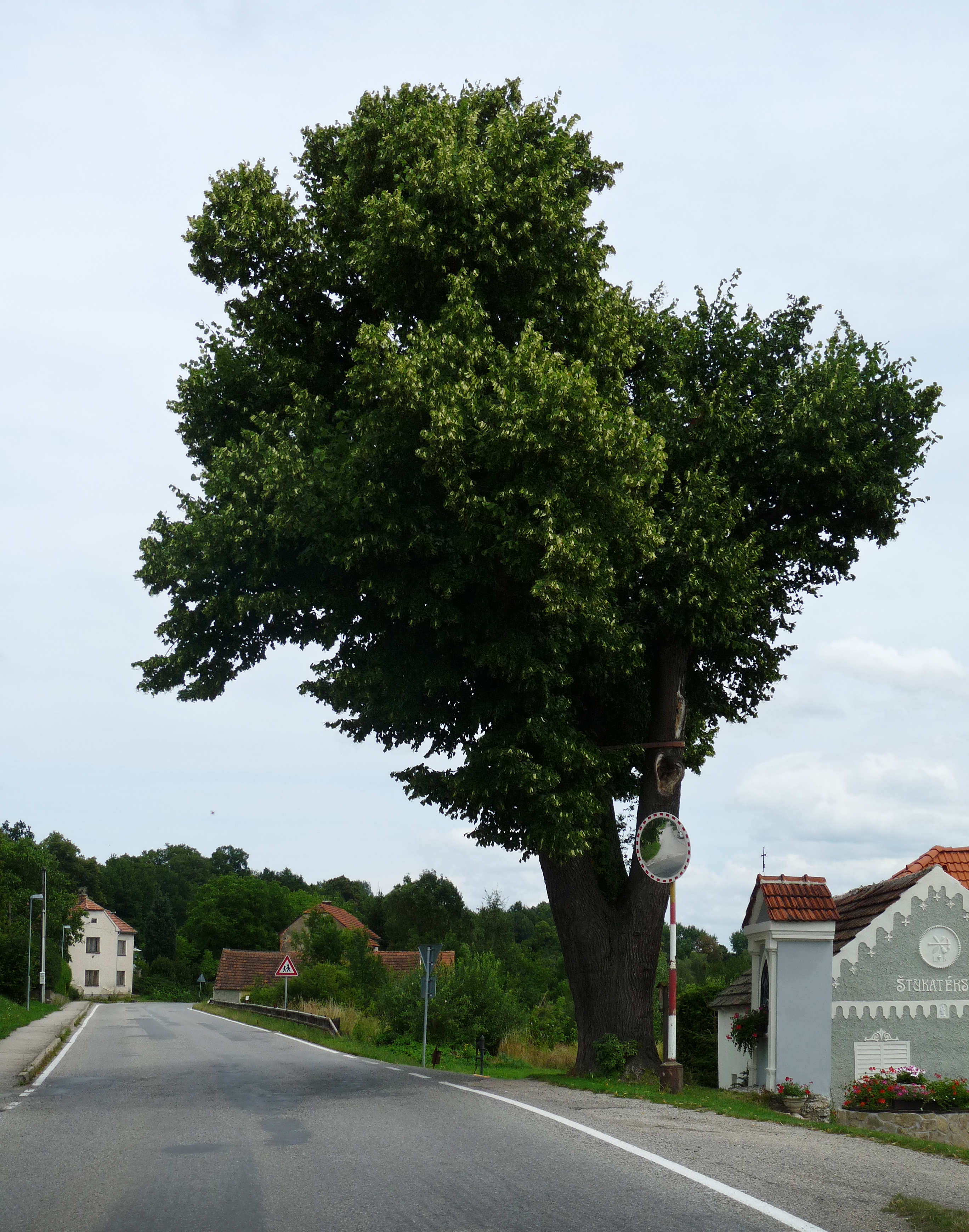 Famous tree - tilia - in the village of Nedabyle, České Budějovice District, Czech Republic. Česky: Památný strom - lípa - v obci Nedabyle, okres Českých Budějovice.